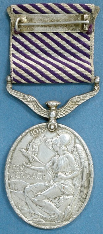 Reverse of British RAF Distinguished Flying Medal, post 1938 version